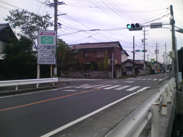 The Karasaki Bridge Intersection on the Aichi Prefectural Road Route 252 in Tokoname City